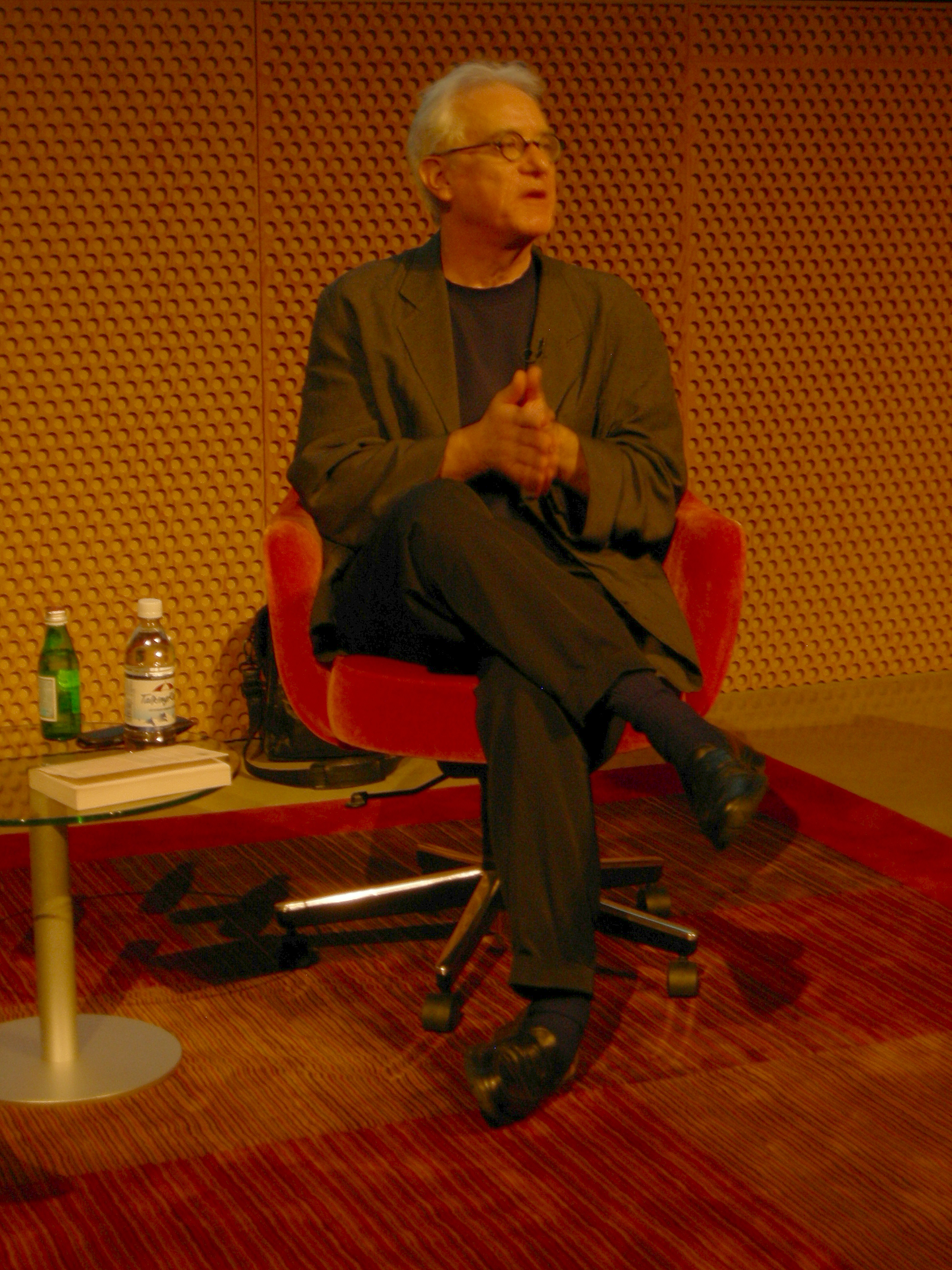 Greil Marcus speaks at the Experience Music Project